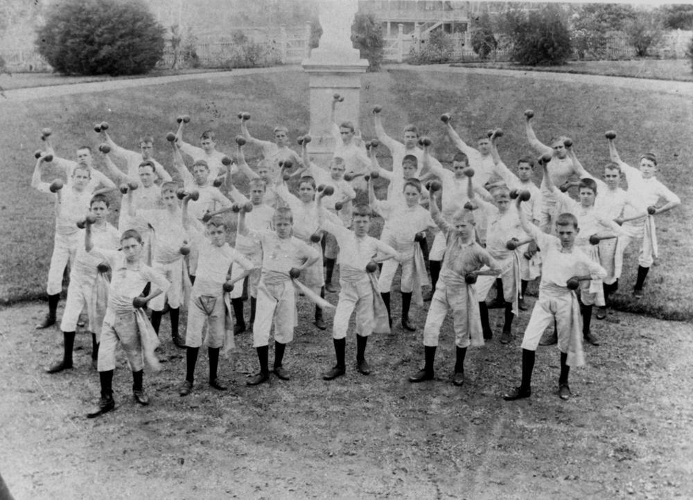 Dumbell drill on the front lawn of Nudgee College, Brisbane, 1898 Schoolboys performing a dumbell drill, possibly for an annual concert, on the lawn in front of Nudgee College, Brisbane, in 1898.